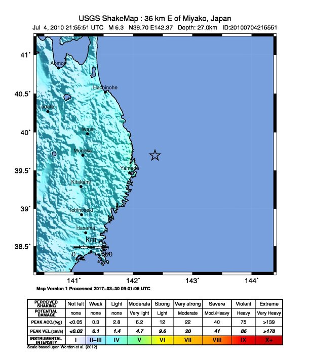 M 6.3 - near the east coast of Honshu, Japan 2010-07-04 21:55:51 (UTC)